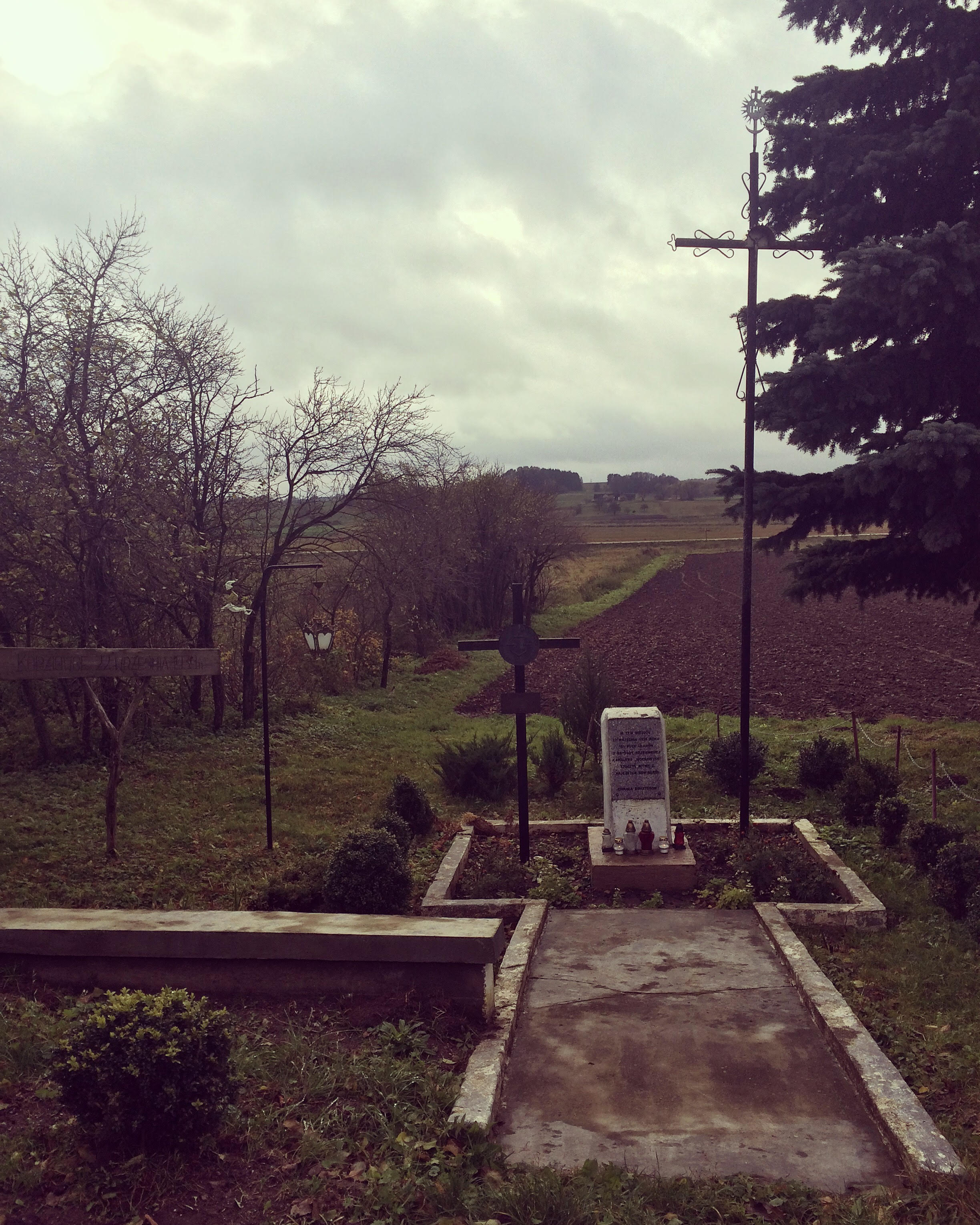 Monument of 101 Uhlans regiment